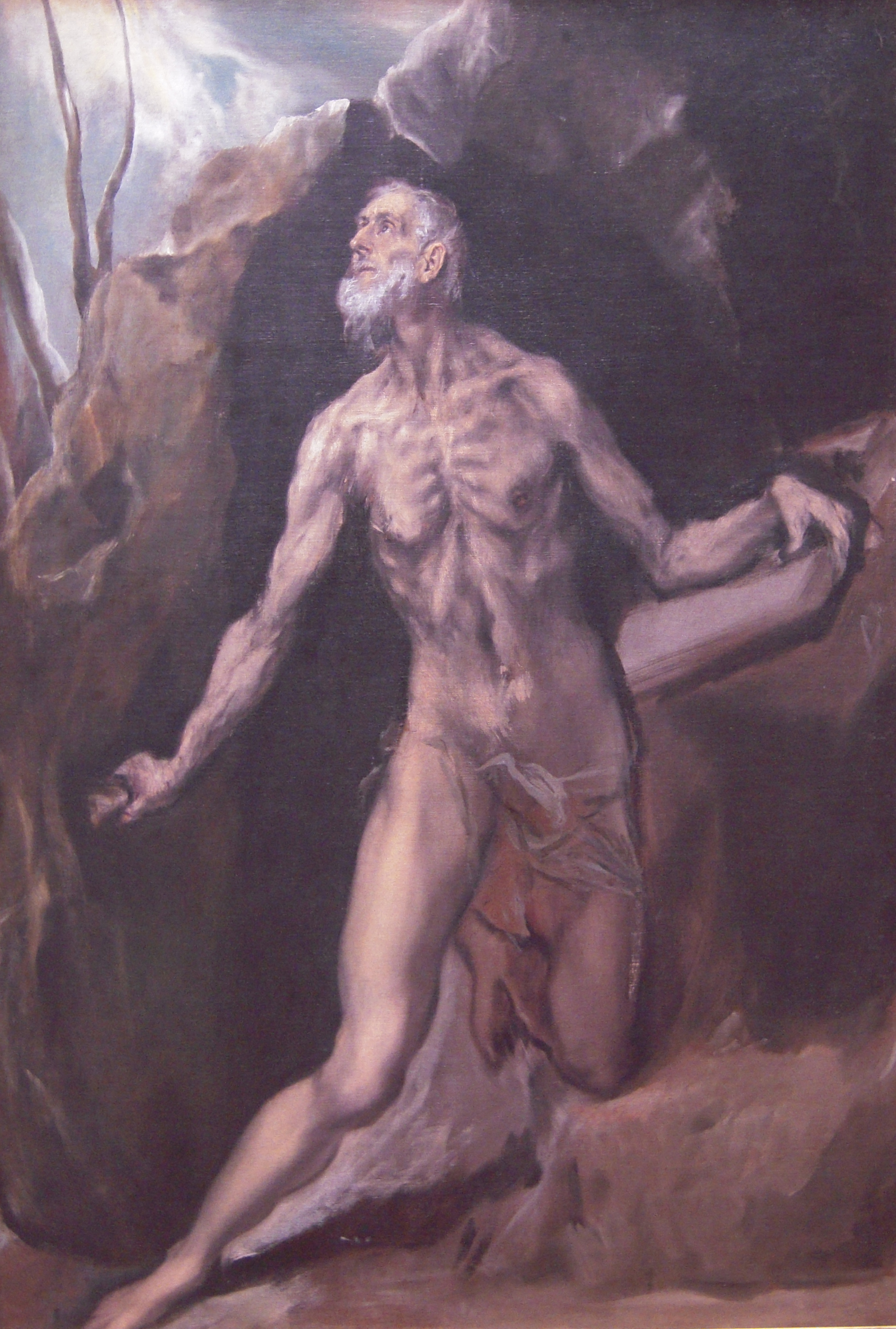 El Greco's (Domenikos Theotokopoulos) painting Saint Jerome